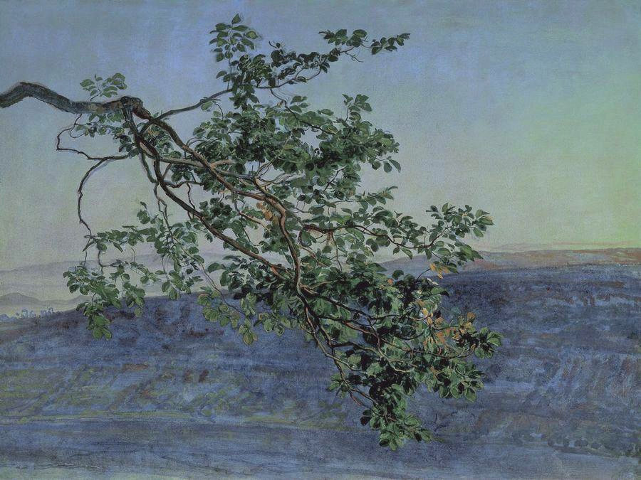 The painting was one of numerous studies for Alexander Ivanov’s main artwork The Appearance of Christ before the People (1837–1857).